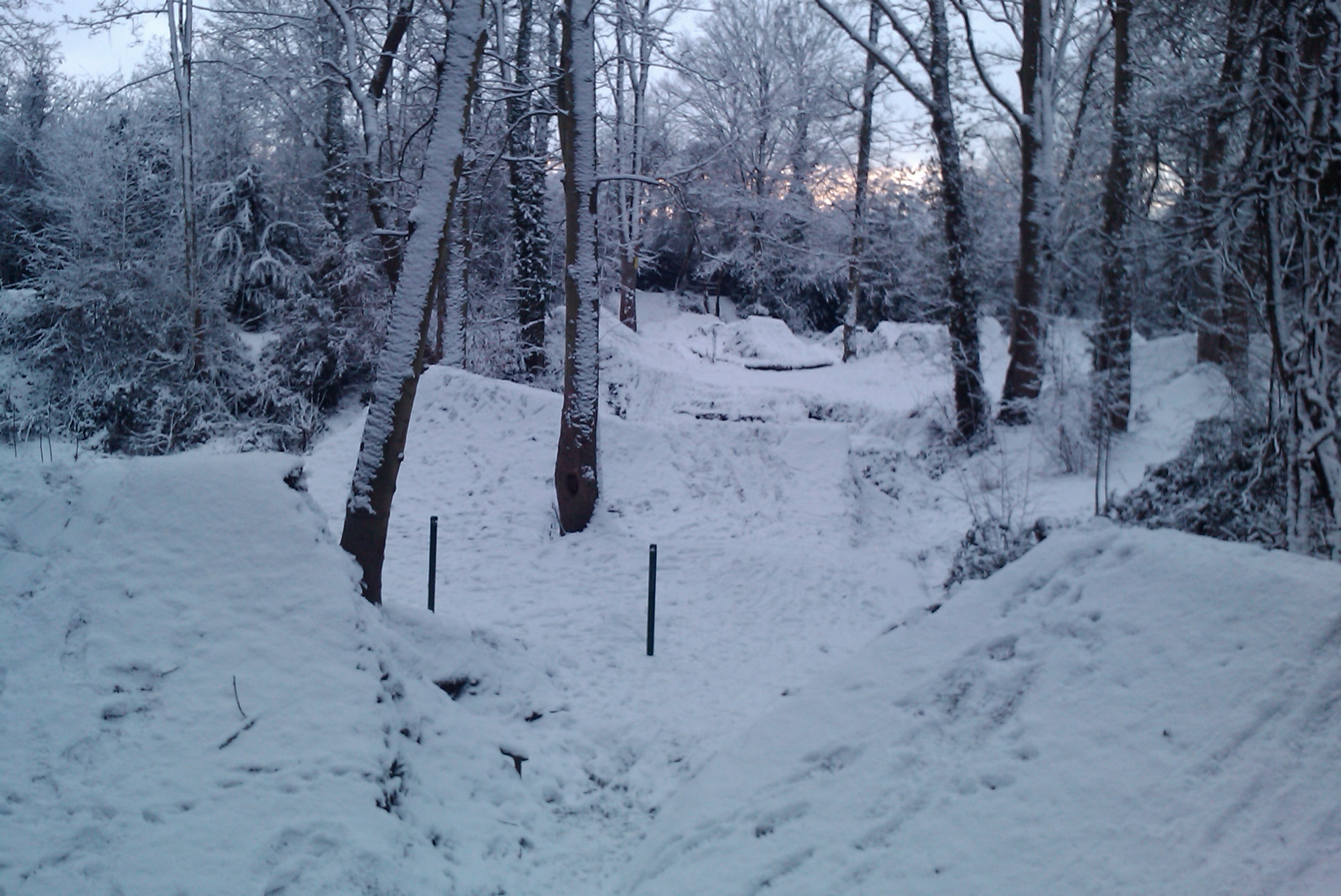 Depicted place: Nonsuch Park